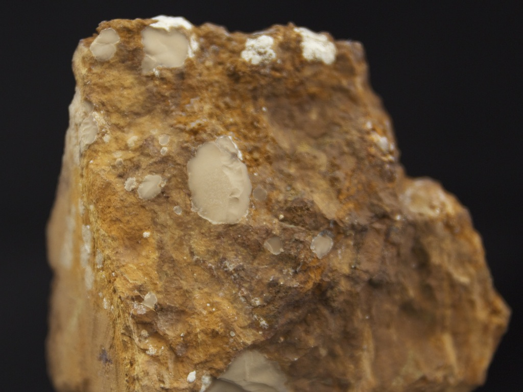 Tinticite from Rocabruna, Bruguers, Gavà, Baix Llobregat, Barcelona, Catalonia